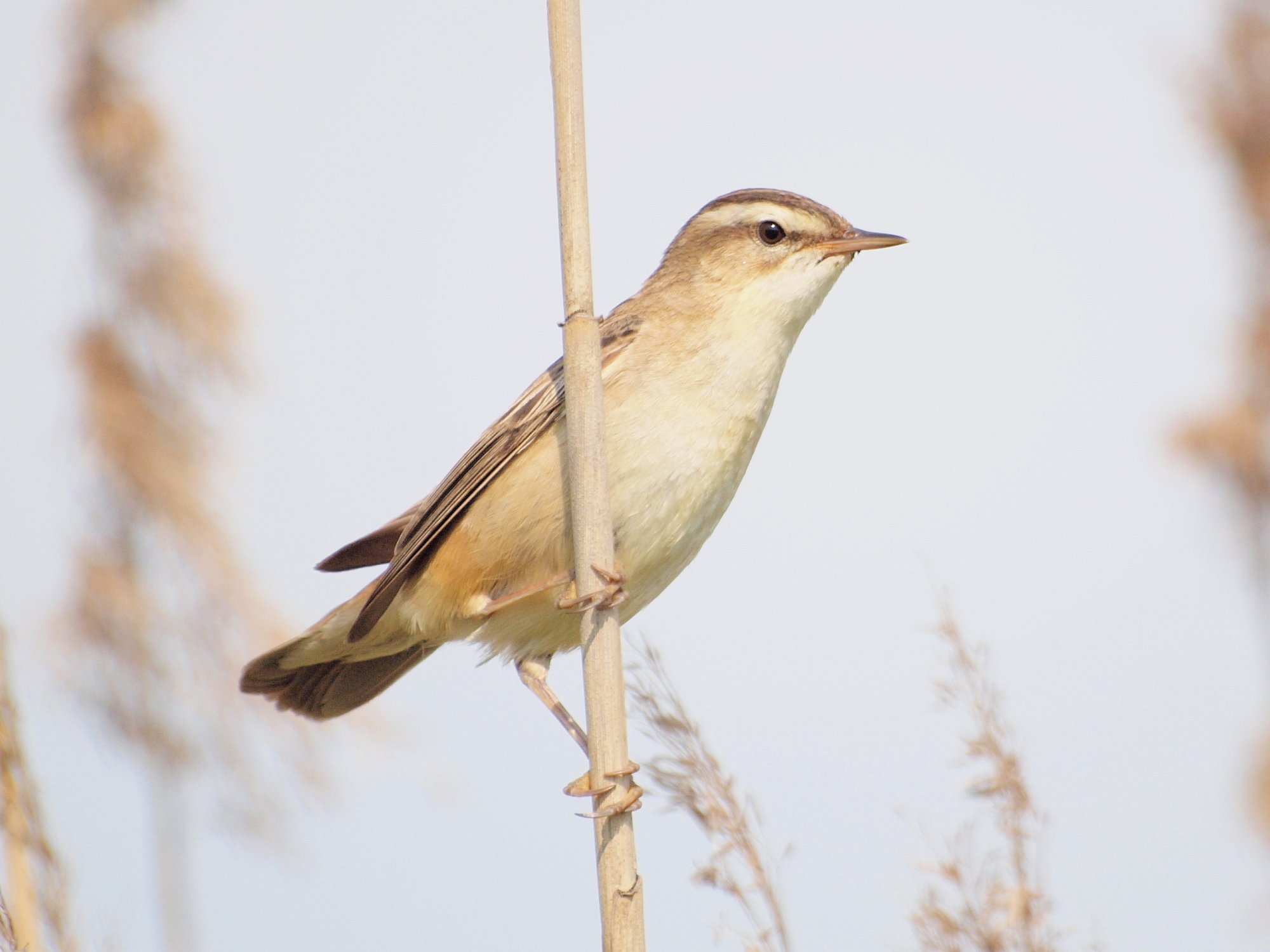 A Sedge Warbler in Sweden.